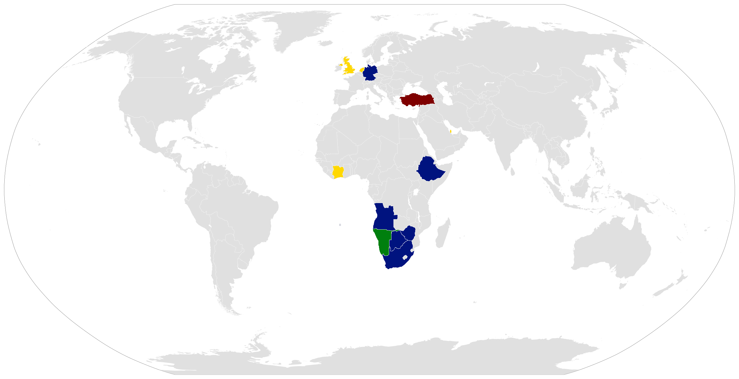 Served countries from/to Hosea Kutako Intl. Airport, Windhoek, Namibia